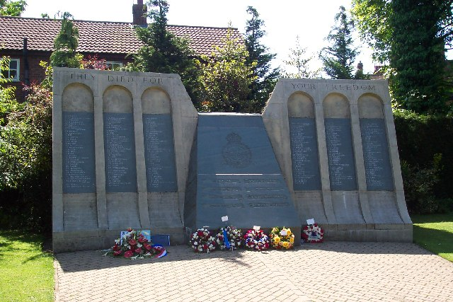 617 Squadron Dambusters Memorial, Woodhall Spa, Lincolnshire. The Dambusters Squadron was based nearby